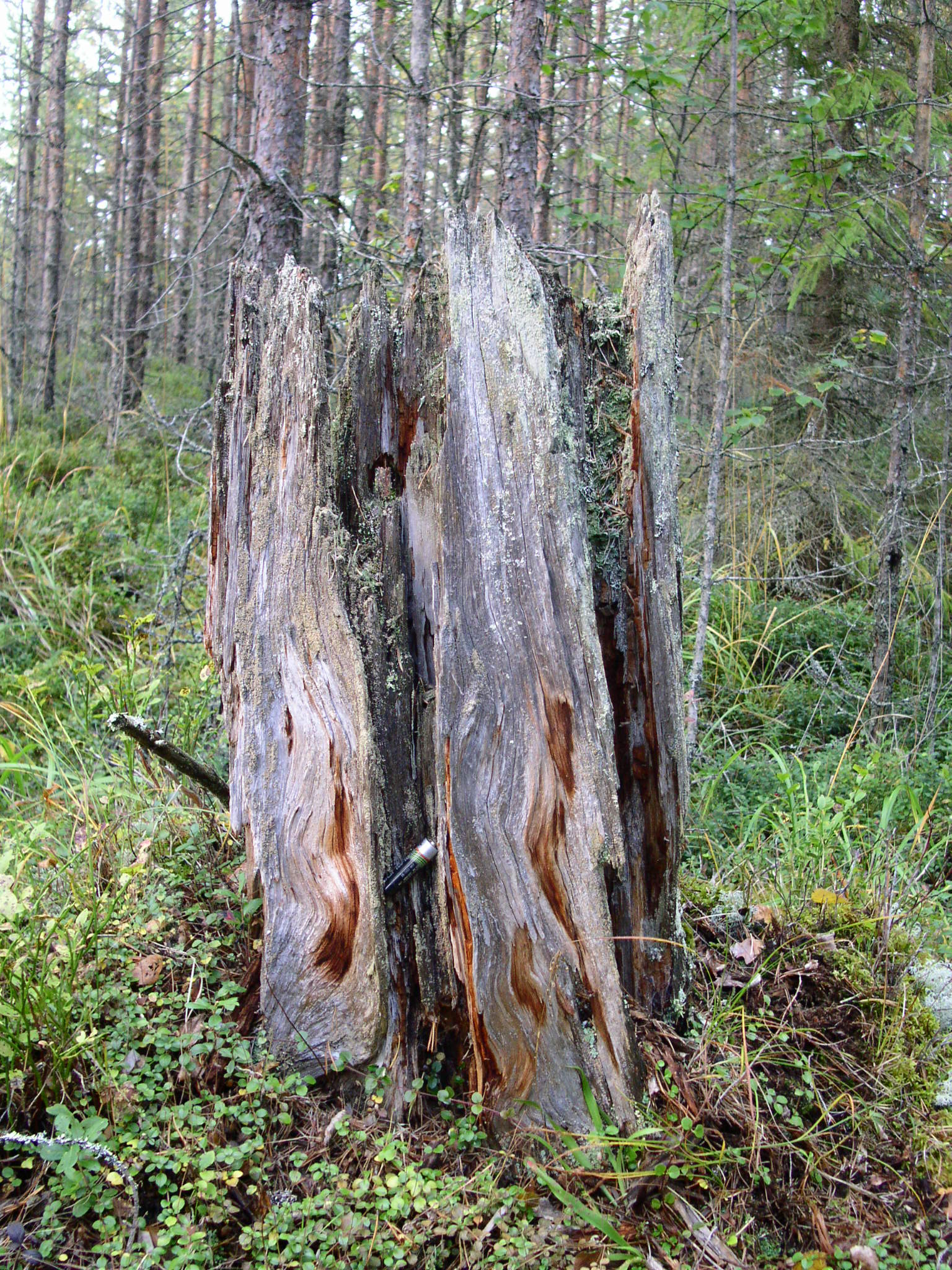 Old (more than 150 yrs) stump of Pinus sylvestris. (The battery is AA-type i.e about 50mm). Below the stump is some plants of Linnaea borealis